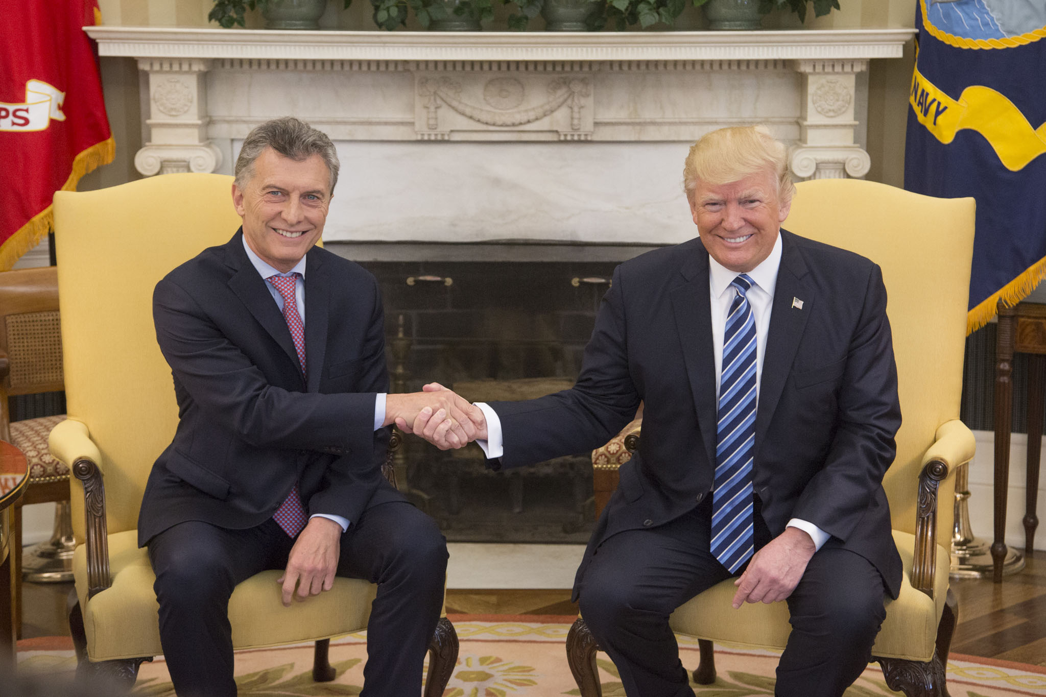 President Donald Trump and Argentine President Mauricio Macri meet, Thursday, April 27, 2017, in the Oval Office of the White House in Washington, D.C. (Official White House Photo by Shealah Craighead)